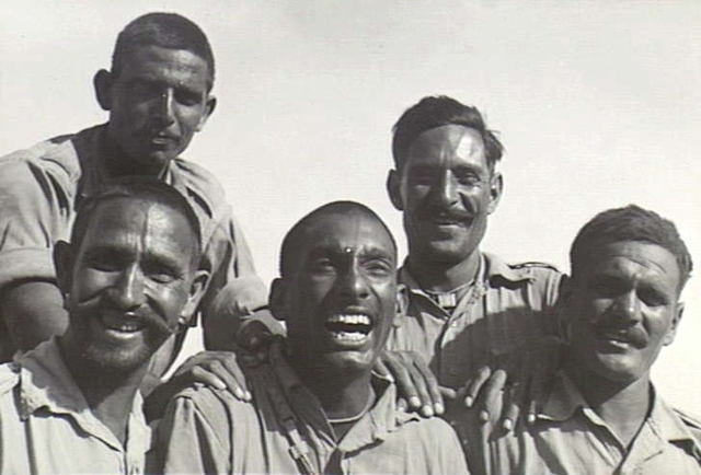 A smiling group of Indian soldiers in Tobruk, Libya.